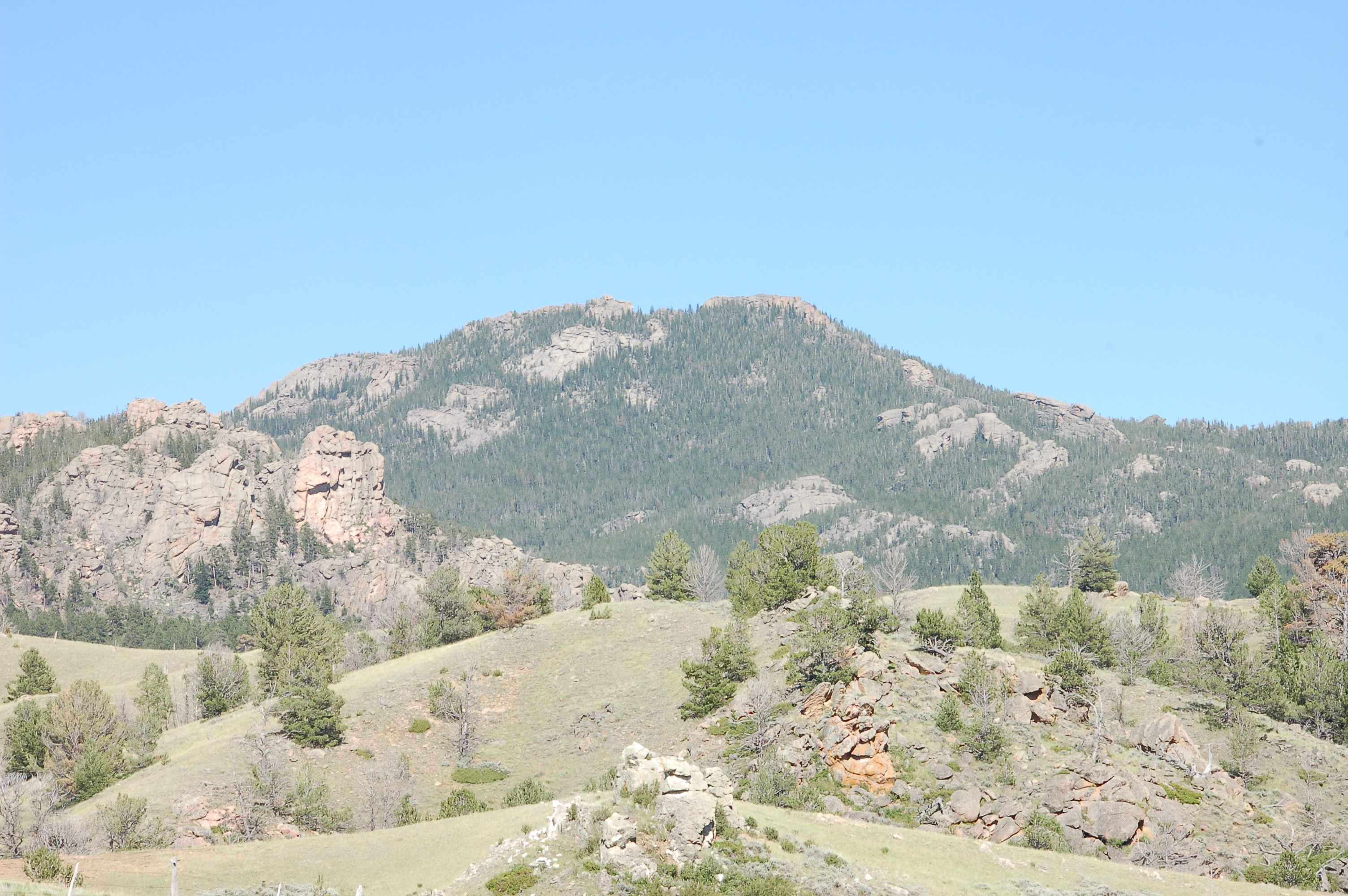 Laramie Peak from south, close to Friend Park